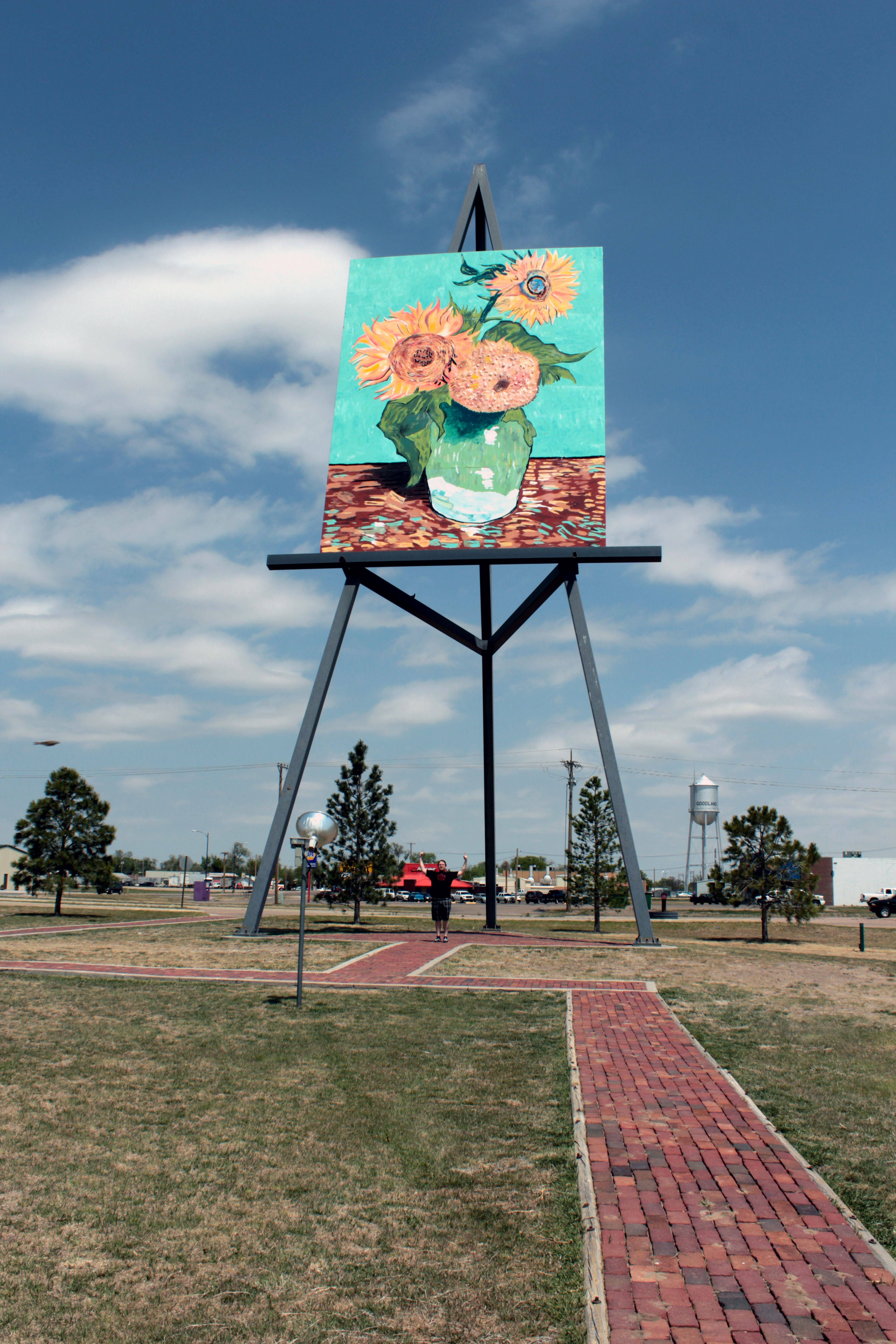 World's largest easel in Goodland, Kansas